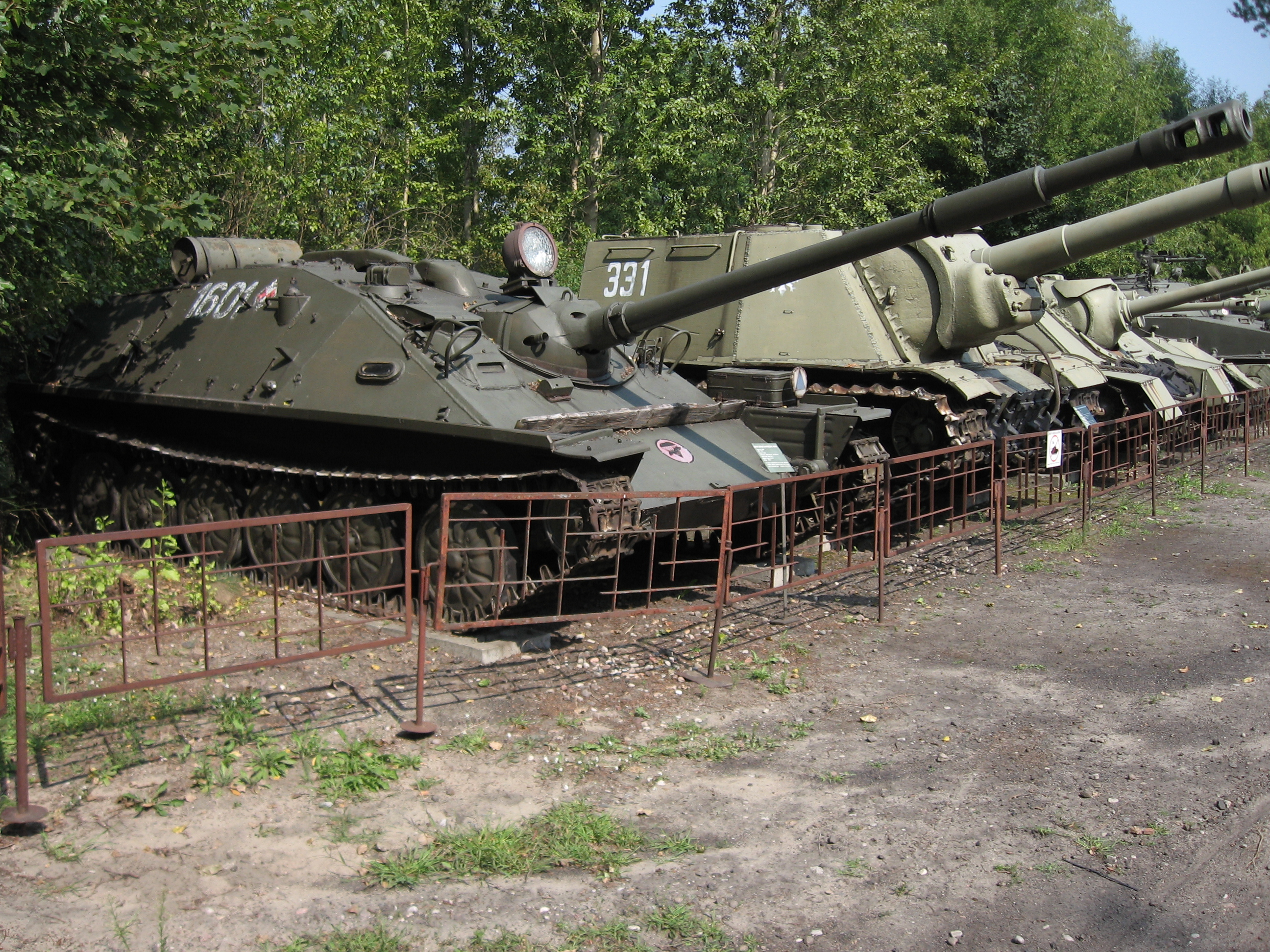 ASU-85 at the Muzeum Polskiej Techniki Wojskowej in Warsaw.